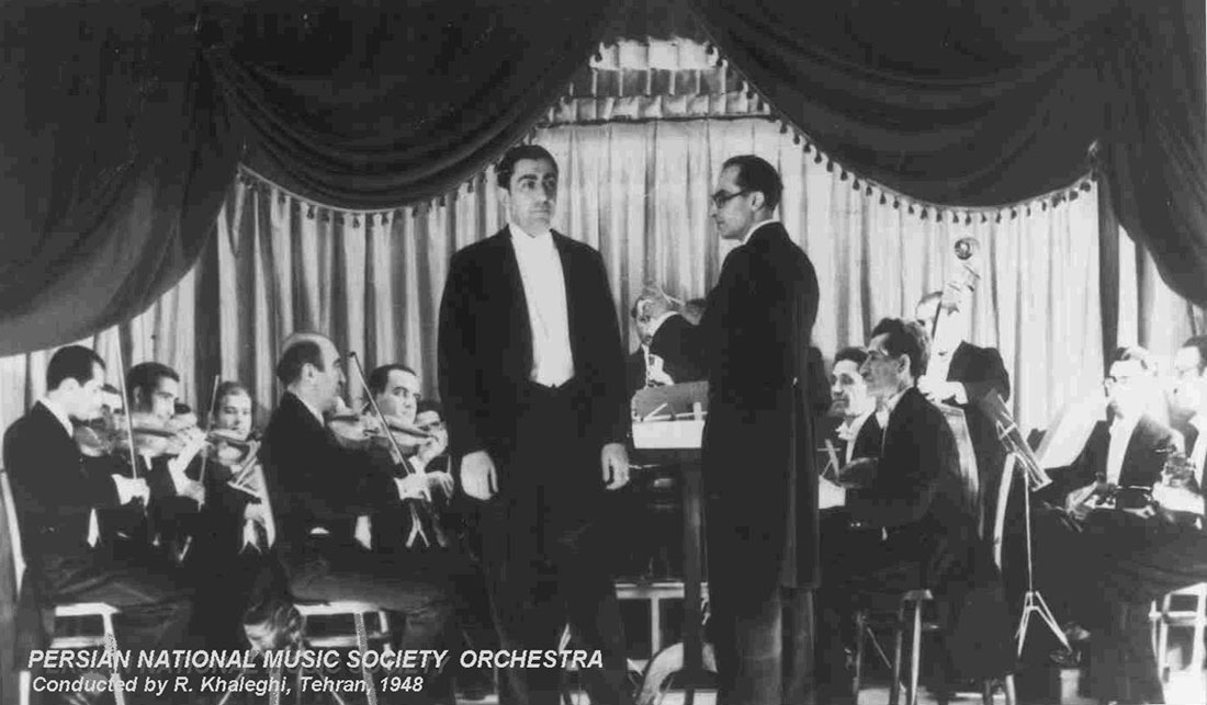 Gholam-Hossein Banan, Ruhollah Khaleghi, Parviz Yahaghi, Ali Tajvidi, Morteza Mahjubi